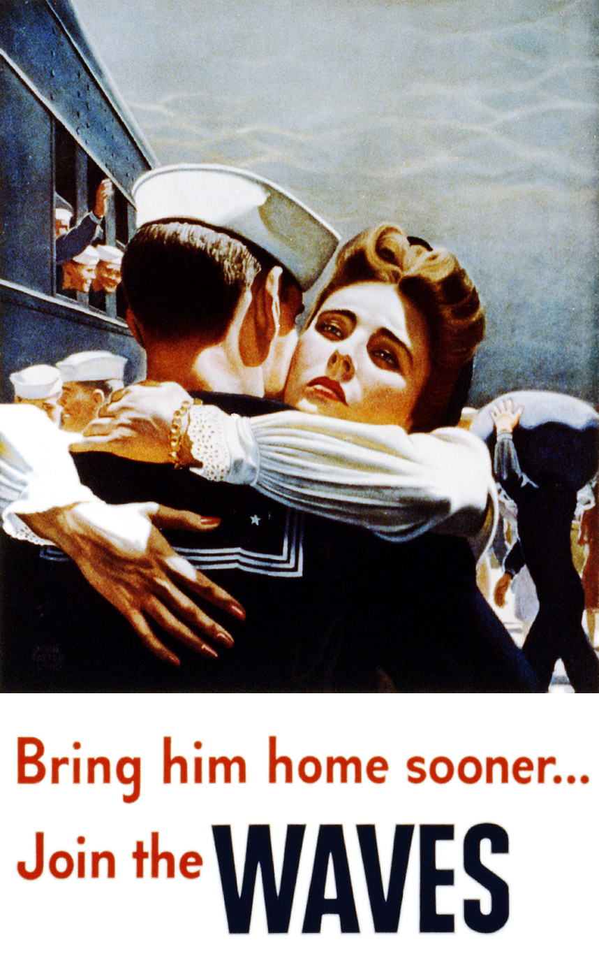 Bring him home sooner... Join the WAVES ("Women Accepted for Volunteer Emergency Service"). Sailor embracing woman by train.